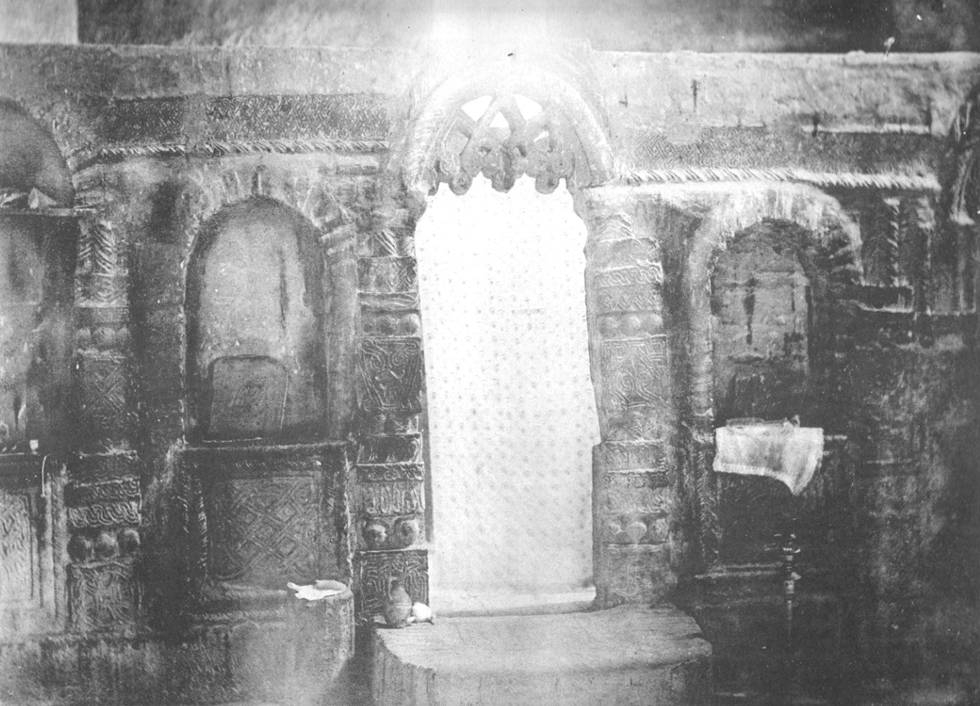 Tiri Monastery in Georgia. A photo from the book by Countess Uvarova. 1894